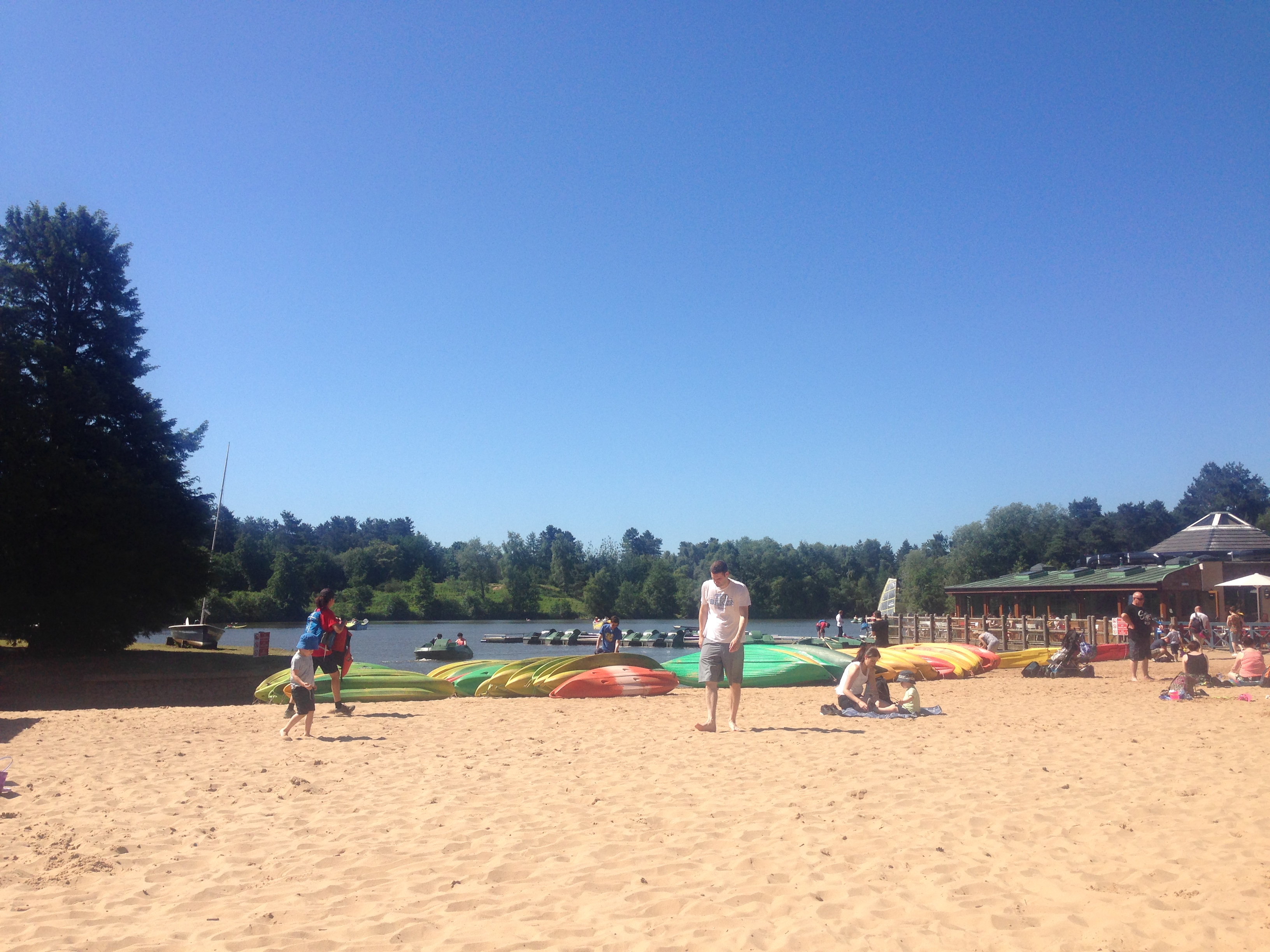 Picture of the boating Lake at Sherwood, with view of Pancake House.